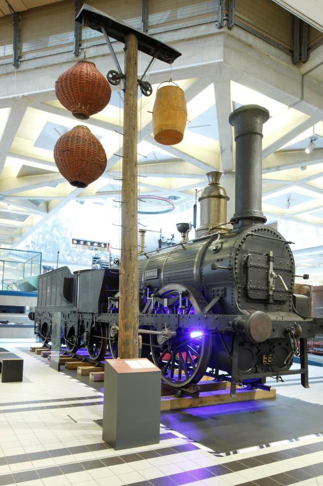 Next to the Ajax, the oldest steam locomotive in the collection of the Technical Museum, there is a basket signal of the Kaiser-Ferdinands-Nordbahn.